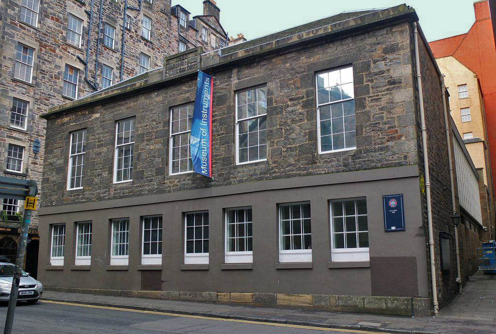 St Cecilia's Hall, Edinburgh, photographed by Jim Barton, 20 November 2014